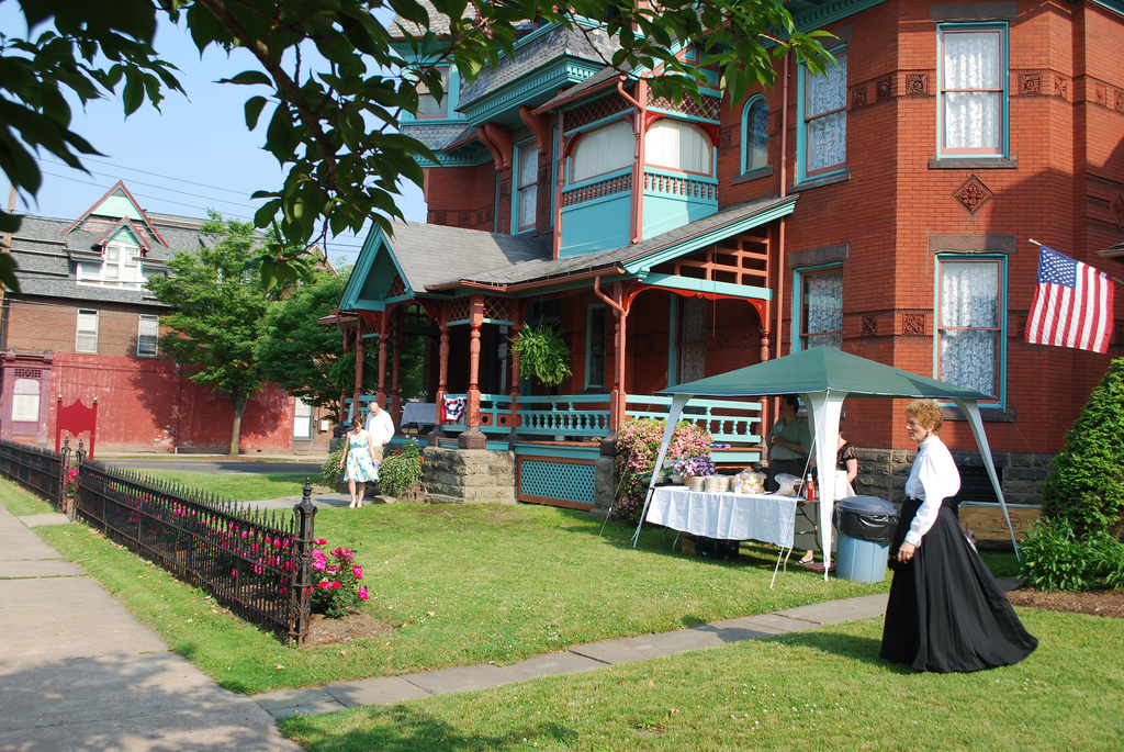 Rowley House Museum, in Williamsport, Pennsylvania, United States.